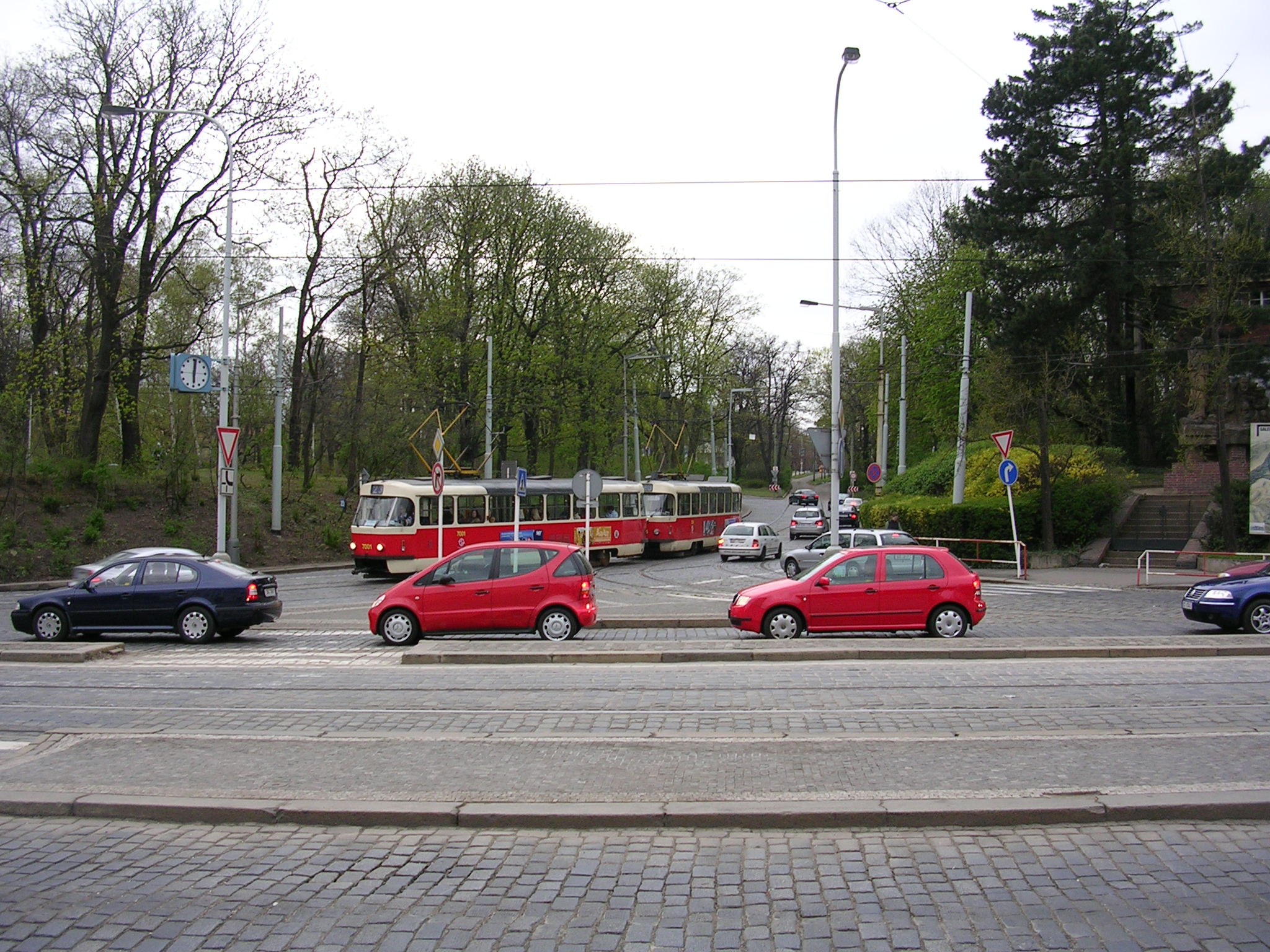 Hradčany, Prague, the Czech Republic.